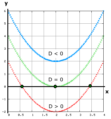 Effect of discriminant